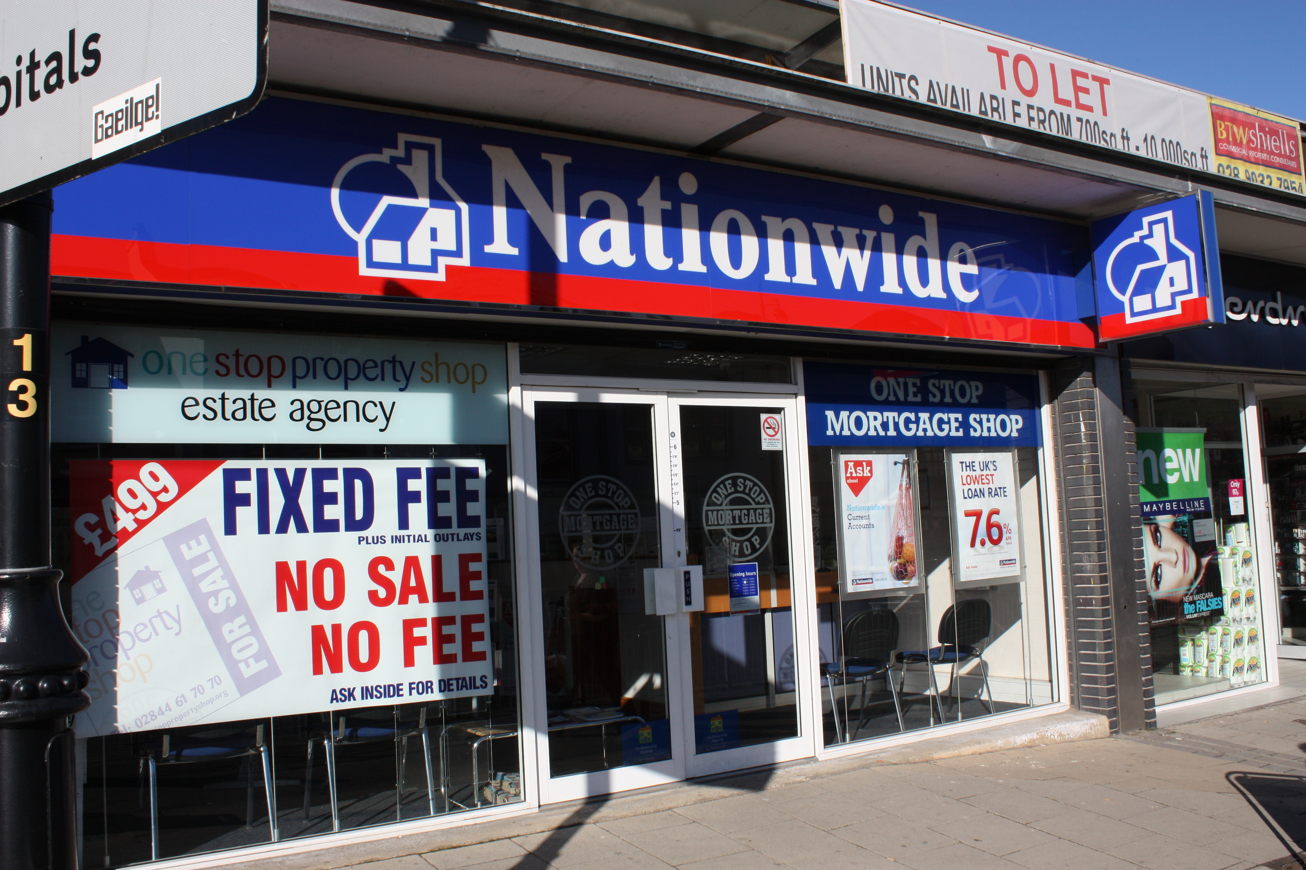 Nationwide Building Society, Market Street, Downpatrick, County Down, Northern Ireland, February 2010